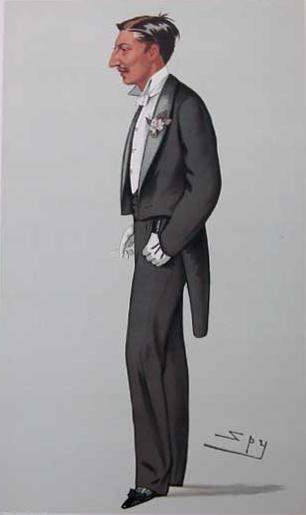 Caricature of Viscount Mandeville. Caption read "Kim".